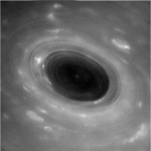 This unprocessed image shows features in Saturn's atmosphere from closer than ever before. The view was captured by NASA's Cassini spacecraft during its first Grand Finale dive past the planet on April 26, 2017.